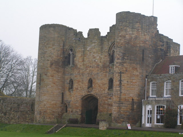 Gate House, Tonbridge Castle Built in the 13th Century.